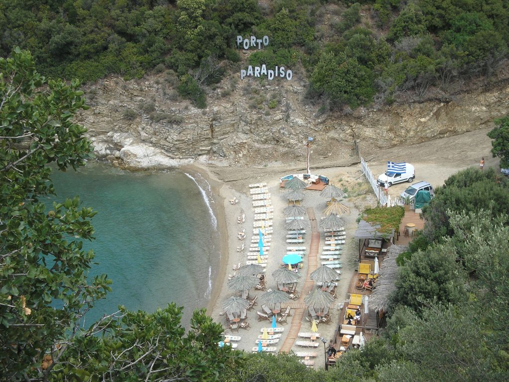 Porto Paradiso, Zografou Beach, Sithonia, Chalcidice, Greece